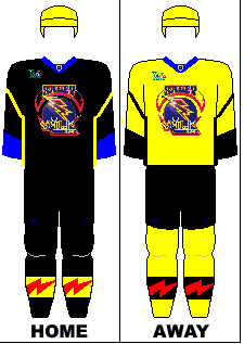 uniform kalev valk